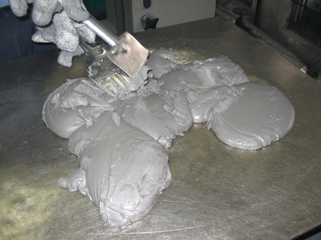 Metal injection molding; matter used in the process - a metal powder and paraffine mixed together.